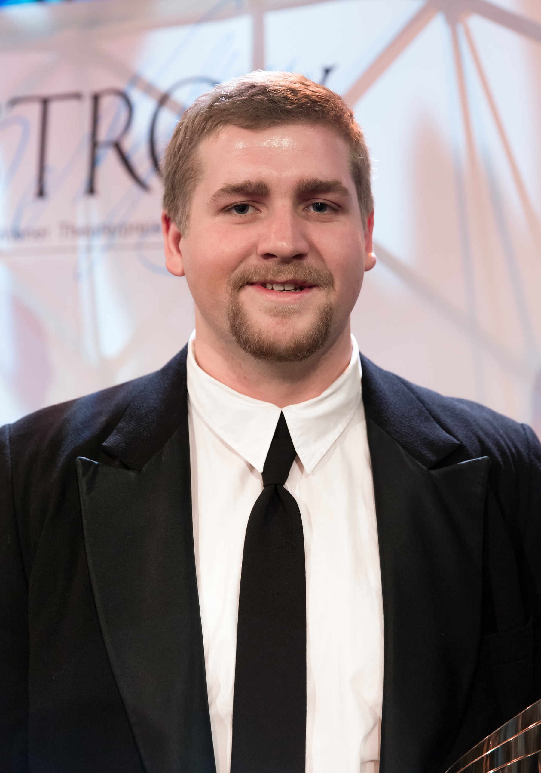 Benedikt Paulun at the Nestroy Theatre Awards 2015 (Ronacher, Vienna, Austria).